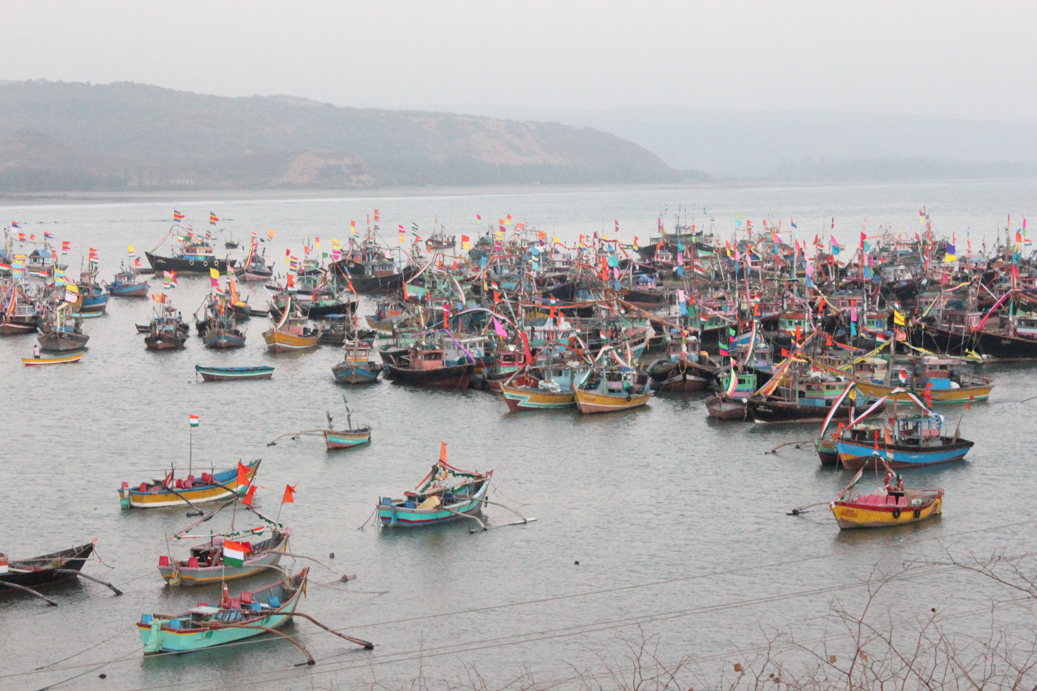 view of harne